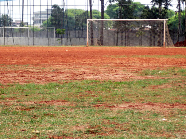 Field of land called "terrão" located on St. Jorge Street, 777, inside the headquarters of the Corinthians.